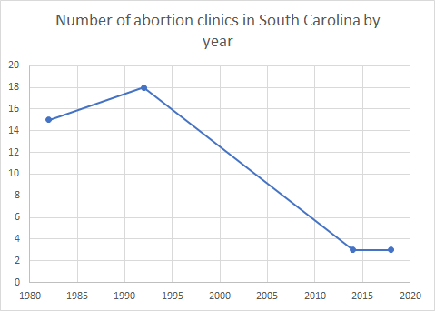 Number of abortion clinics in South Carolina by year. Data is from articles linked at